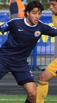 Tornike Okriashvili